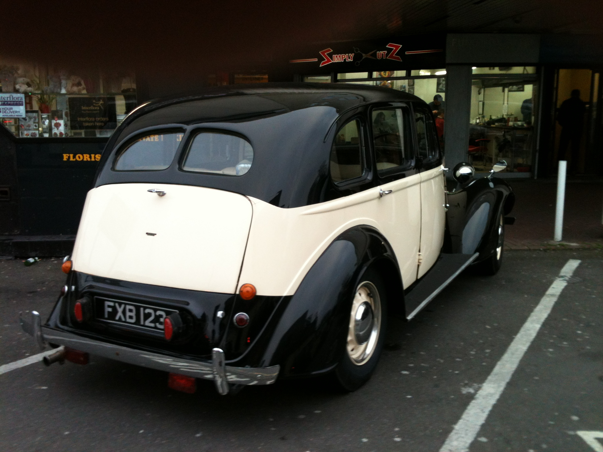 1939 Hillman 14 (DVLA) first registered 28 April 1939, 2267 cc